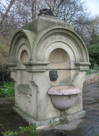 Victorian fountain in the Kirkstall district of Leeds. Currently positioned at the site of the demolished police station.